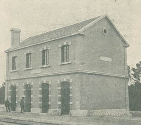 Construction of the Muge Railway Station, on the Vendas Novas Railway, in Portugal. This image was published on the Ilustração Portuguesa magazine No. 3, 1st edition, of the 23rd November 1903, and scanned by the Hemeroteca Municipal de Lisboa.